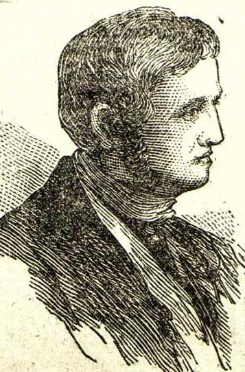 Daniel Shays, leader of Shays' Rebellion.